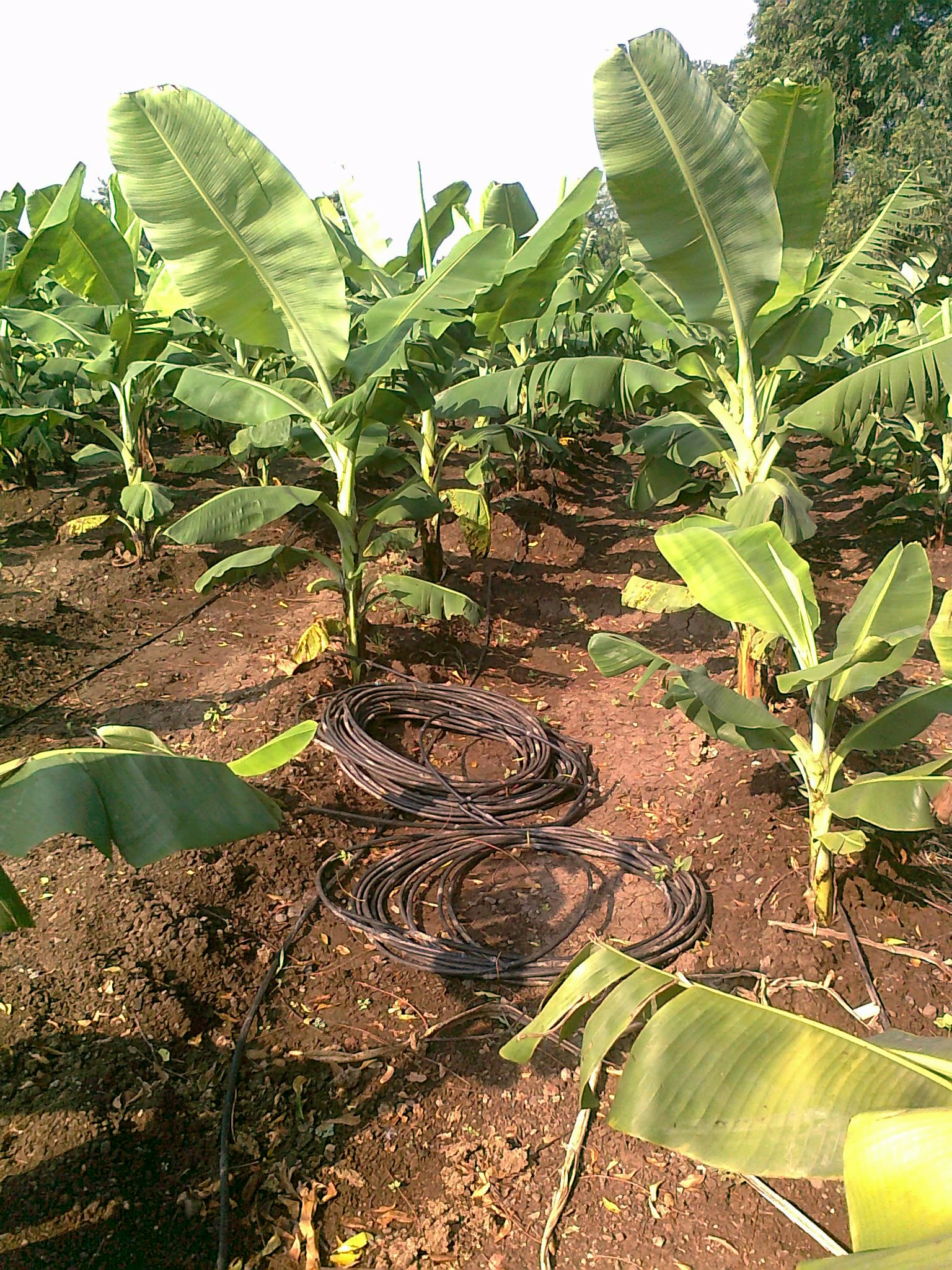 Drip irrigation in banana farm at Chinawal village, India.